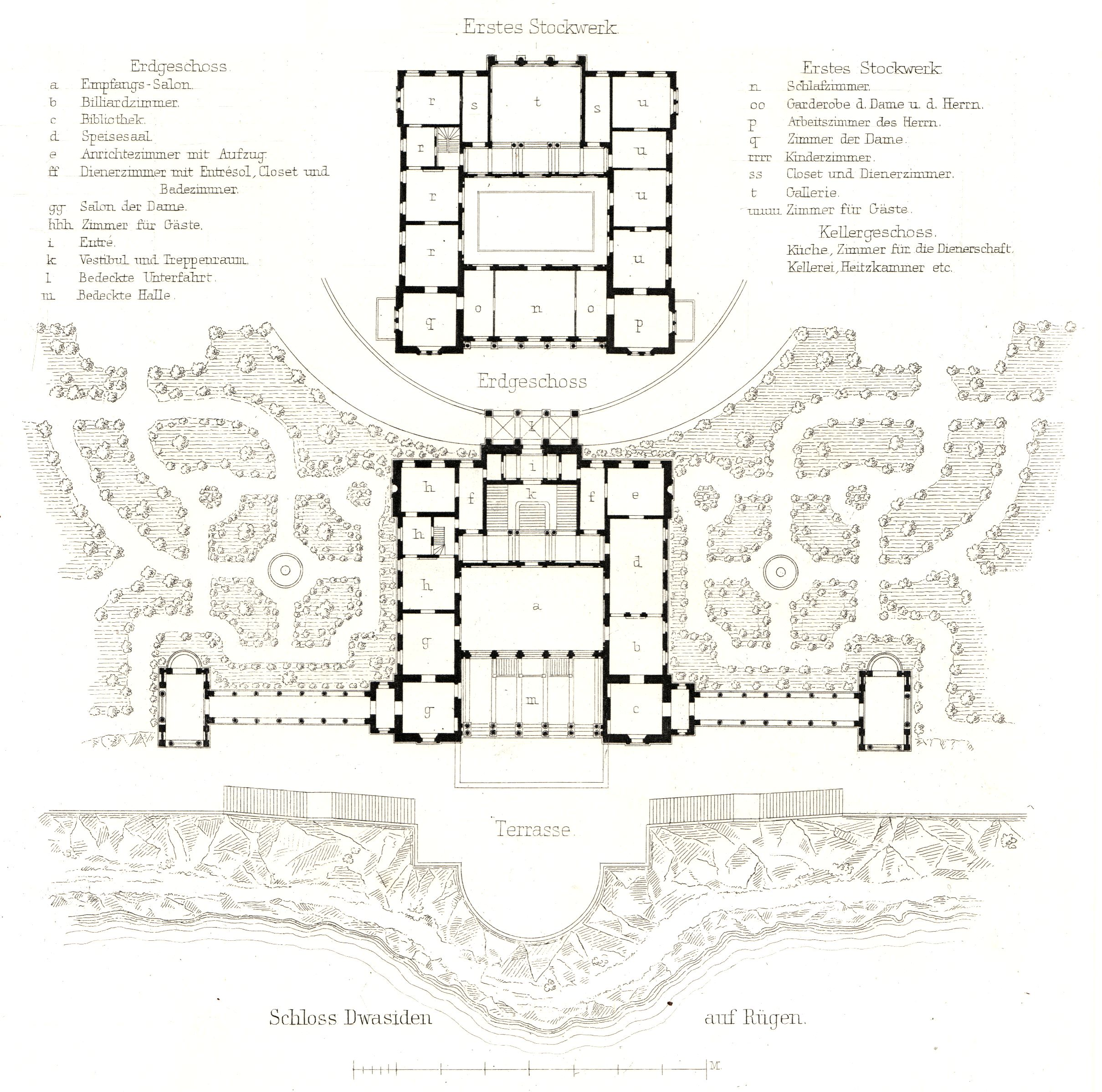 Rügen - Schloss Dwasieden, plan view